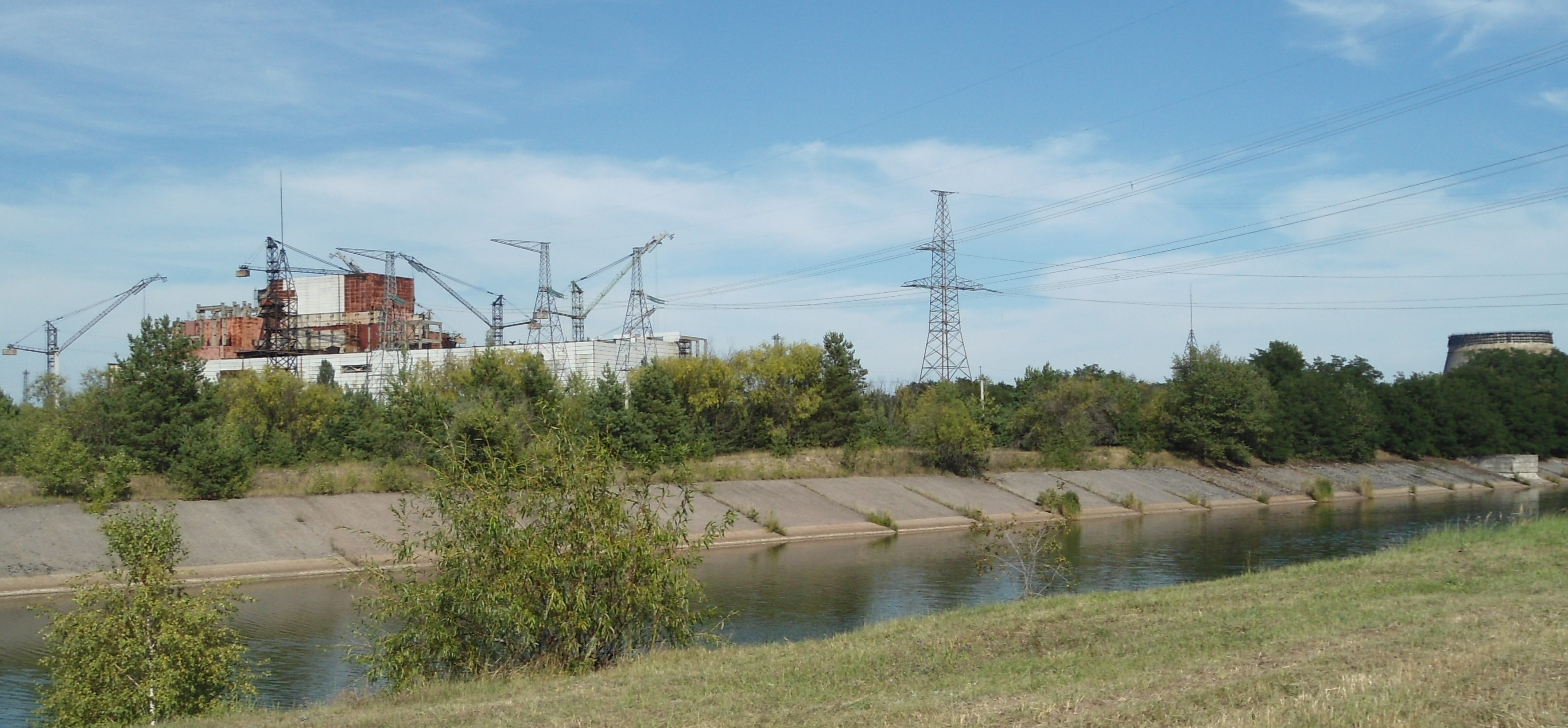 Reactors 5 & 6 (never completed) of the Chernobyl Nuclear Power Plant, Pripyat, Ukraine.